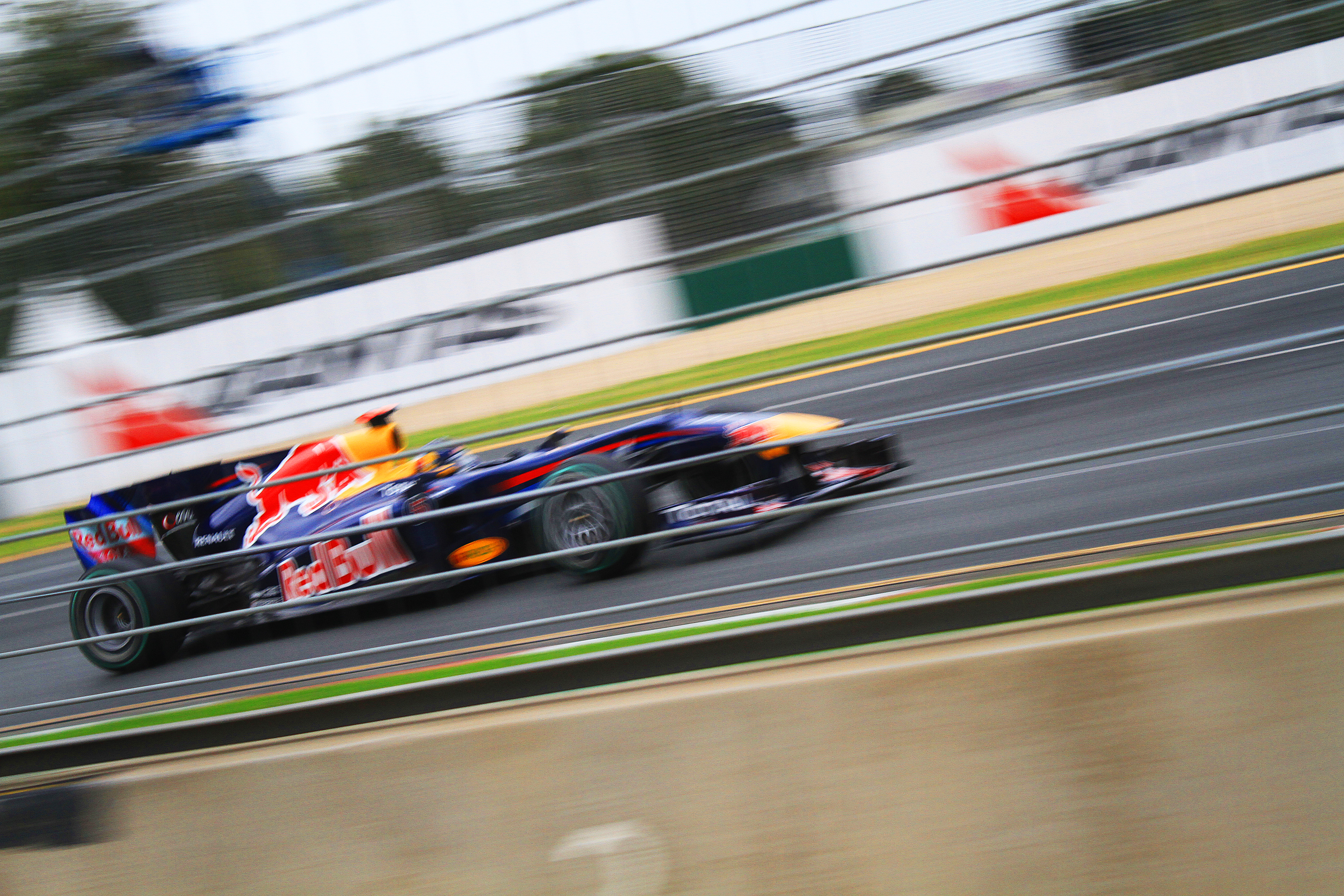 Sebastian Vettel driving for Red Bull Racing at the 2010 Australian Grand Prix.